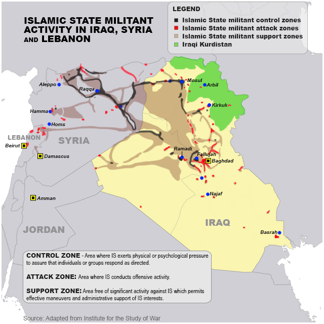 No original description. Original title: "Islamic State Militant Activity In Iraq, Syria and Lebanon"